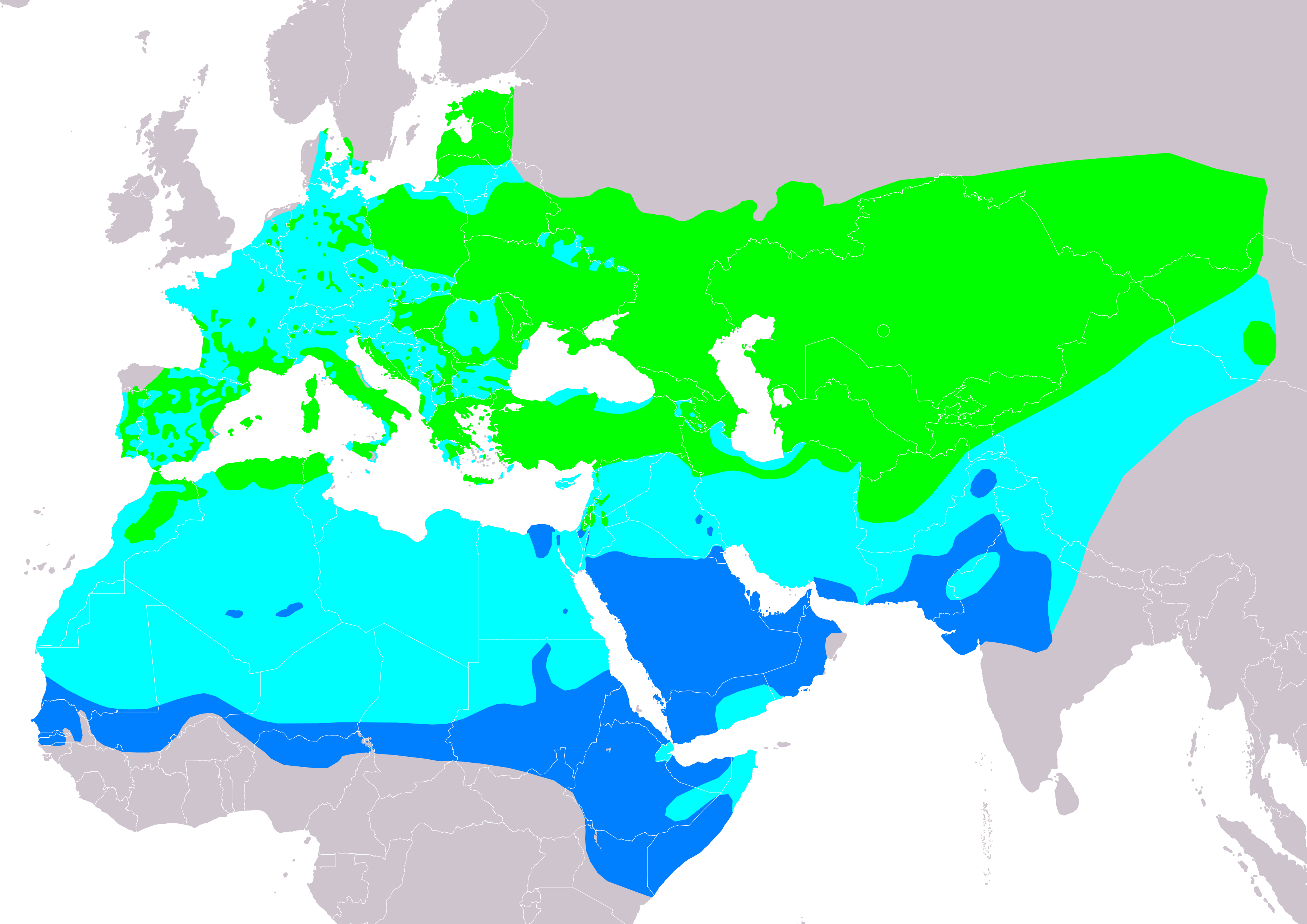 The distribution map of tawny pipit (Anthus campestris) according to IUCN 2019.1; key: Legend: Extant, breeding (#00FF00), Extant, passage (#00FFFF), Extant, non-breeding (#007FFF)